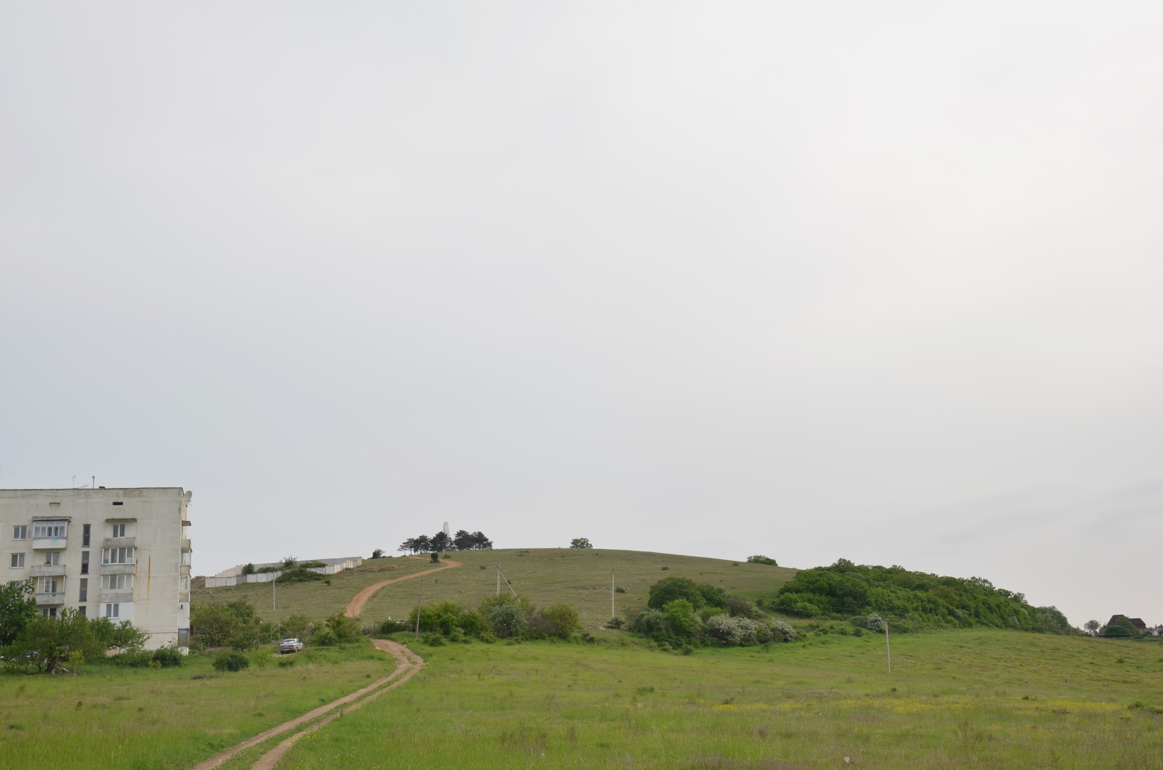 Height Gornaya (Sevastopol)